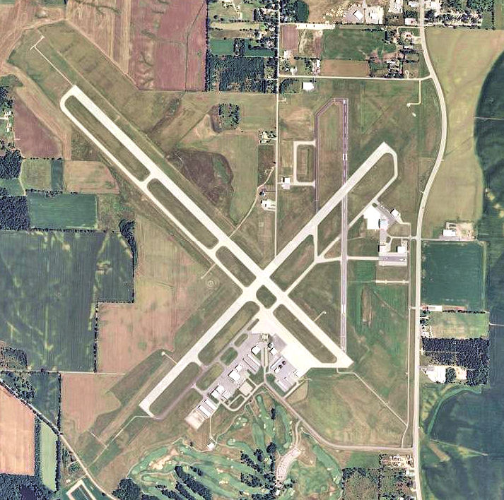 USGS digital orthophoto of Southern Wisconsin Regional Airport in Wisconsin